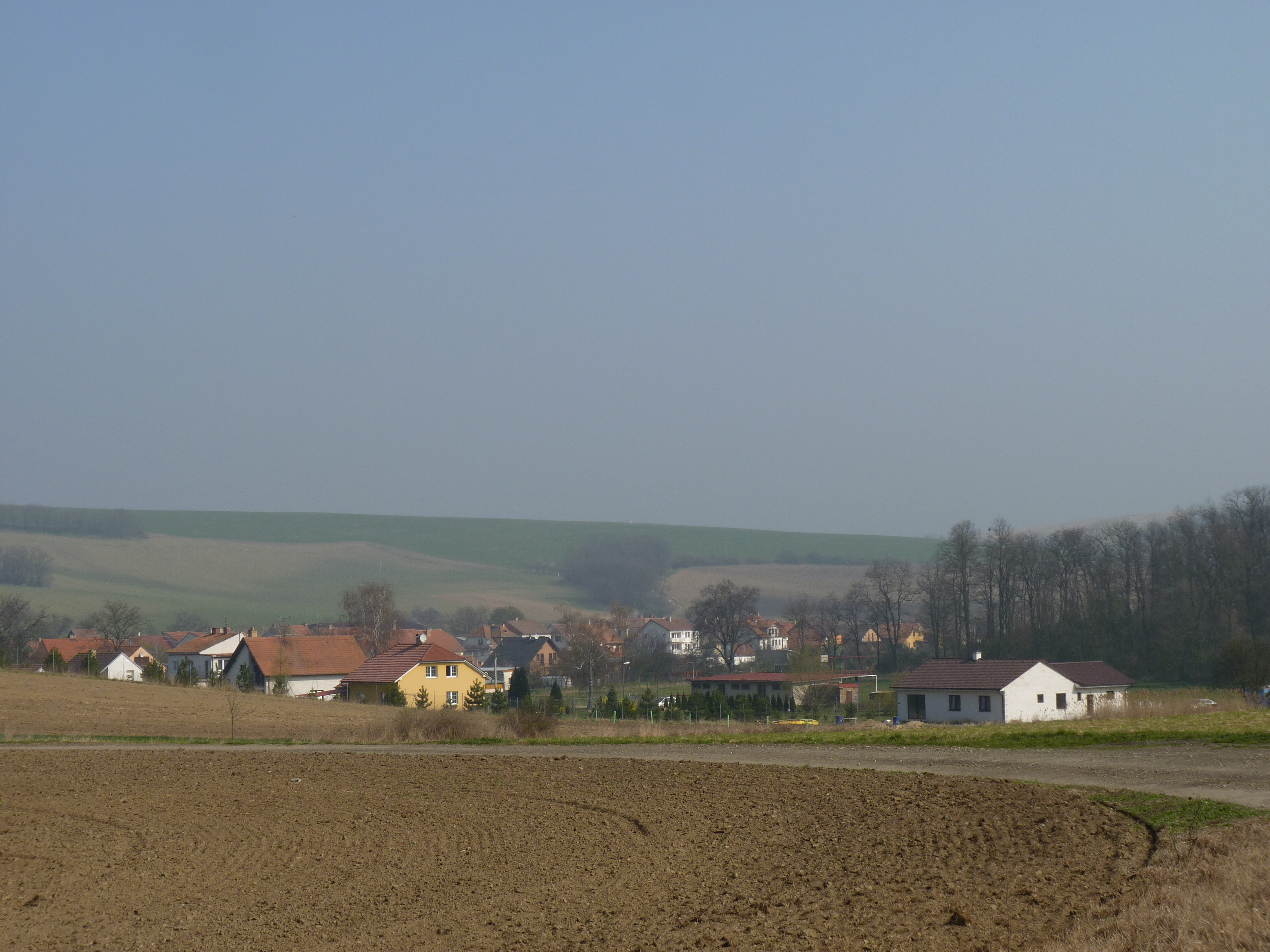 Diváky, Břeclav District, South Moravian Region, Czech Republic Project: Chráněná území